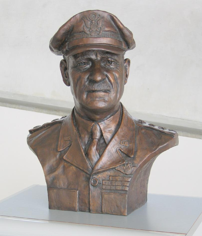 A bust of Carl A Spaatz (1891-1974), the US General. Taken at the Imperial War Museum, Duxford, UK.